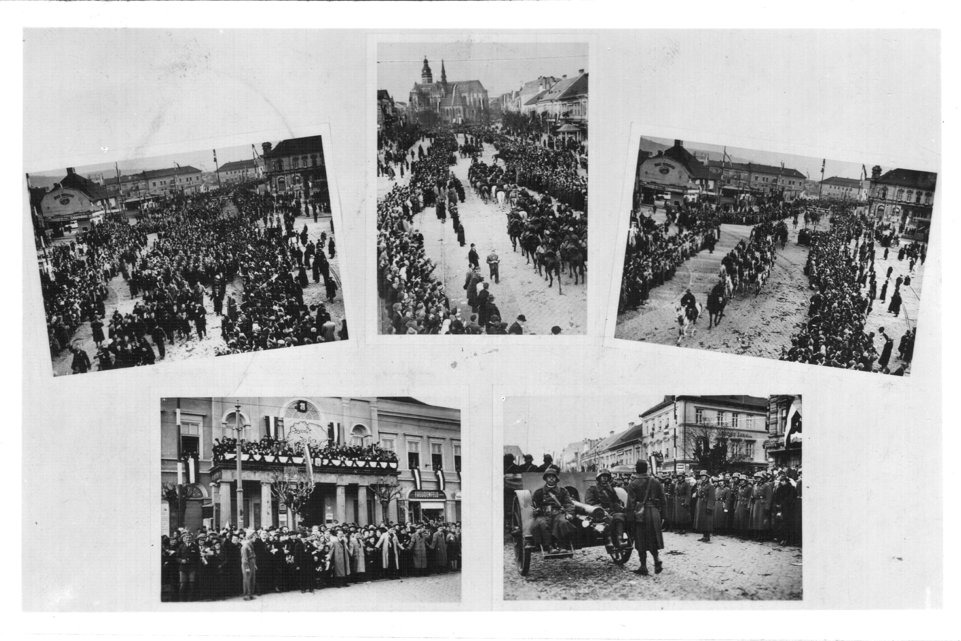 Live on the 10th and 11th of november, 1938. Hungarians waiting for the troops of Hungary on the streets of Kassa. On the back side: A FELVIDÉK FELSZABULÁSÁNAK EMLÉKÉRE KASSA 1938. Nov. 10-11 SÁRAI BUDAPEST ROTÁCIÓS FÉNYKÉPSOKSZOROSÍTÓ Stamp validation: Kassa visszatért (Kassa returned). Published under Creative Commons in the Metapolisz DVD line. A felvételek a képeslapon 1938 november 10-én és 11 -én készültek. Ünneplő magyarok fogadják a bevonuló magyar csapatokat Csehszlovákia széthullását követően. A felhasznált bélyegzett képes levelezőlap hátoldalán a következő szöveg: A FELVIDÉK FELSZABULÁSÁNAK EMLÉKÉRE KASSA 1938. Nov. 10-11 SÁRAI BUDAPEST ROTÁCIÓS FÉNYKÉPSOKSZOROSÍTÓ Stamp validation: Kassa visszatért. A felvétel megjelent Creative Commons alatt a Metapolisz DVD sorozatban.